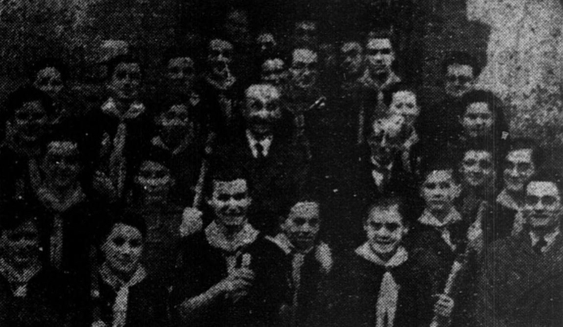 Les Éclaireurs de France de Rennes entourant André Lefevre, commissaire national lors d'une visite à Rennes en 1937